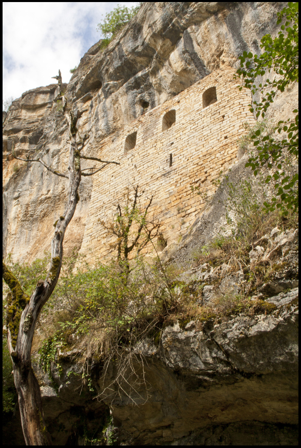 Picture of the Château des Anglais (English Castel) taken from hiking trail GR 651 near town Brengues in Lot department, France. .